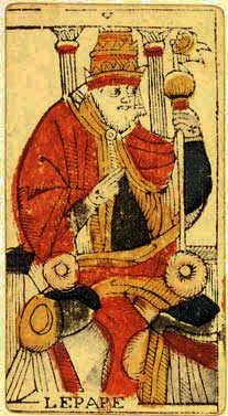 An original card from the tarot deck of Jean Dodal of Lyon, a classic Tarot of Marseilles deck which dates from 1701-1715.